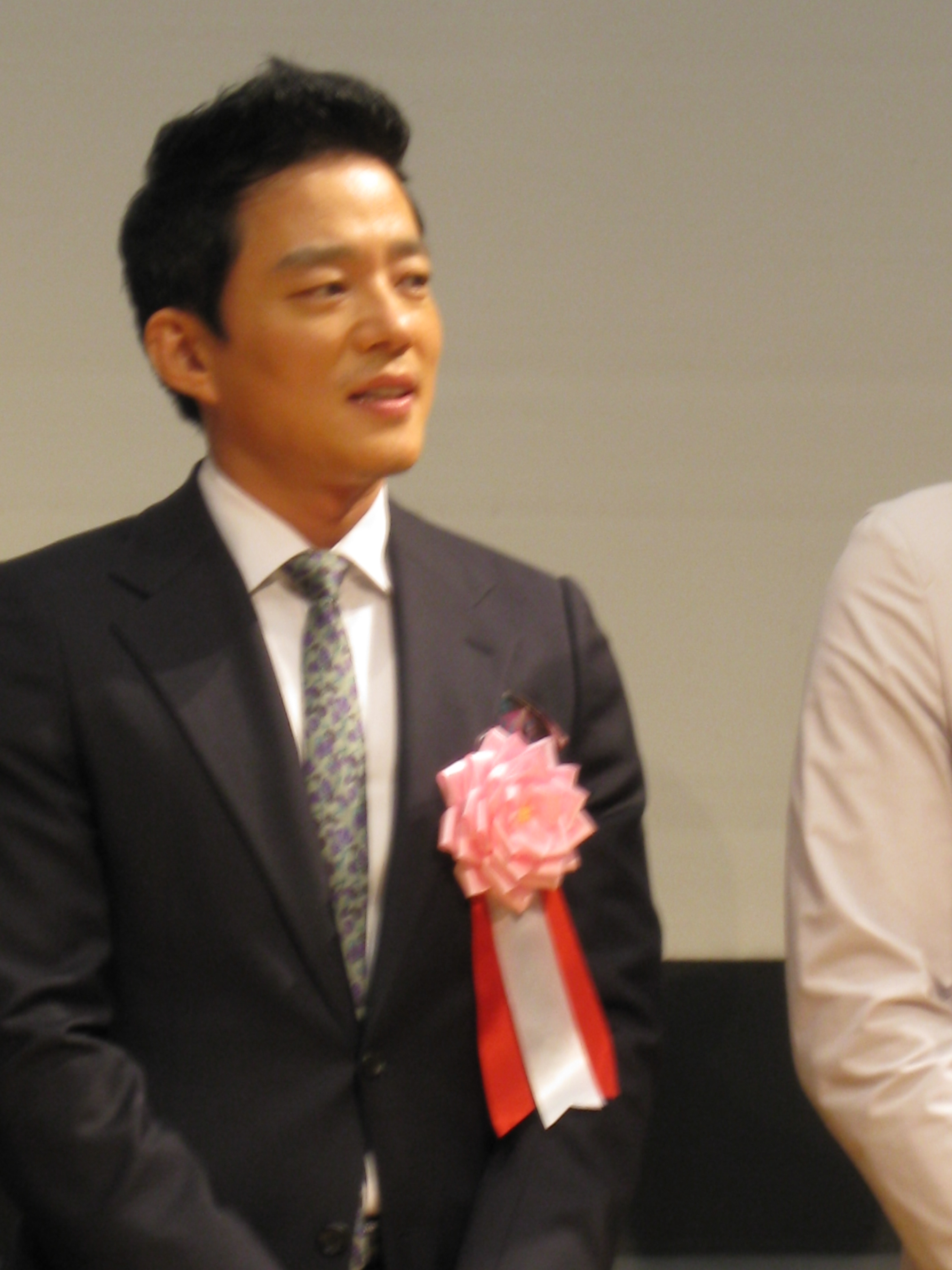 Lee Peom-soo, a South Korean actor, at the reception of Japan-Korea Nest Generation Film Festival at Beppu, Oita